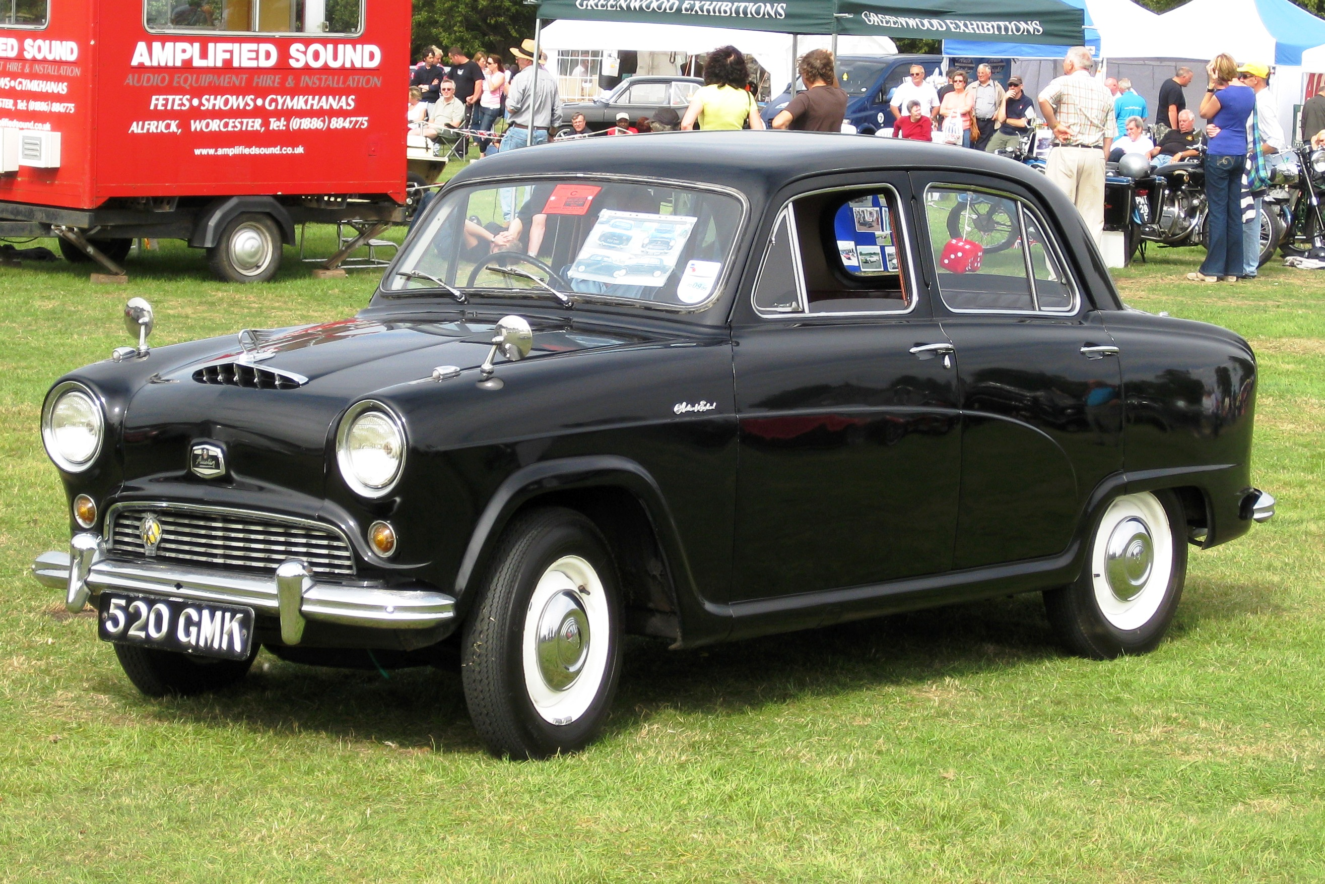 Austin A50 Cambridge